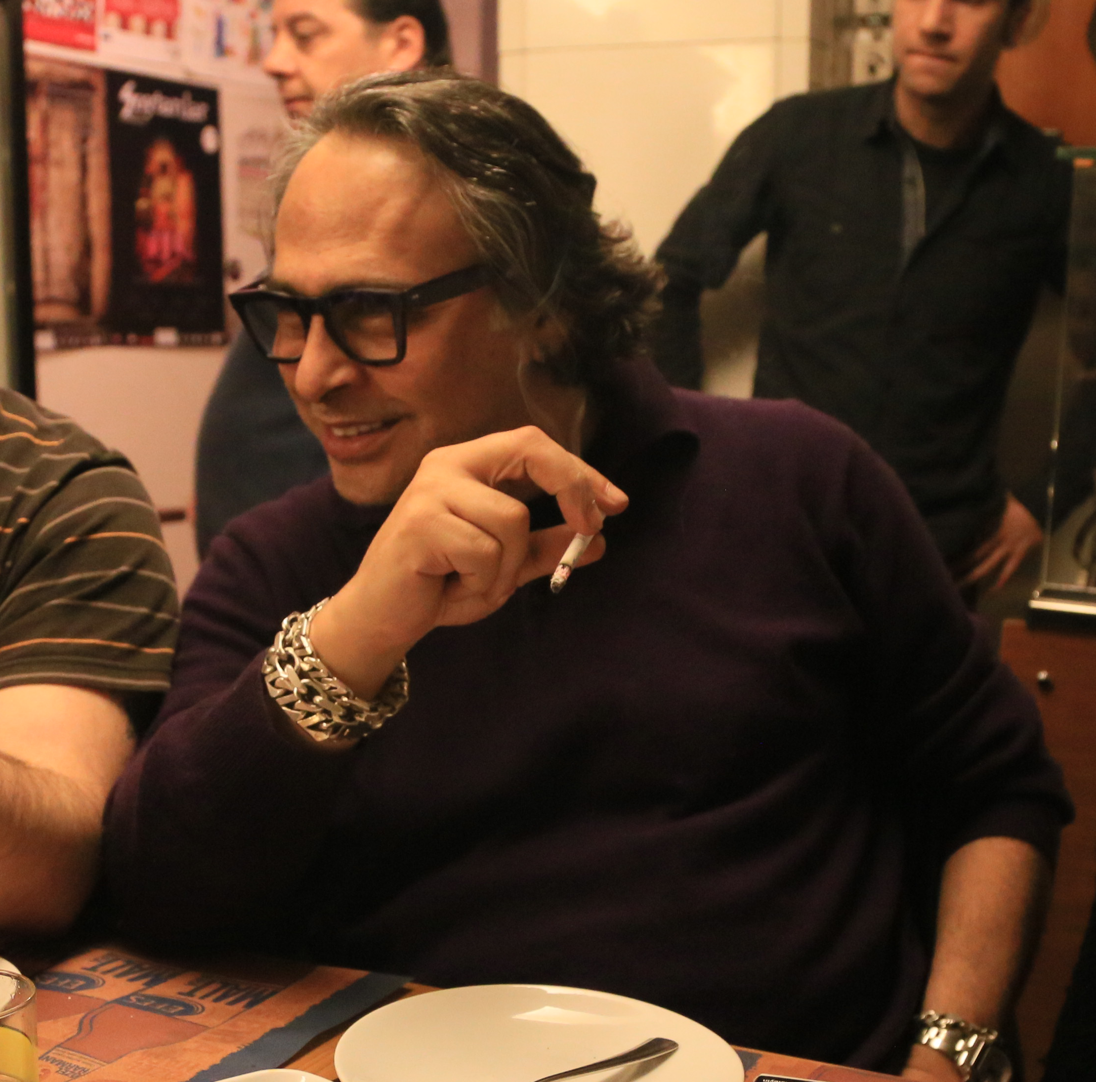 Barbaros Şansal